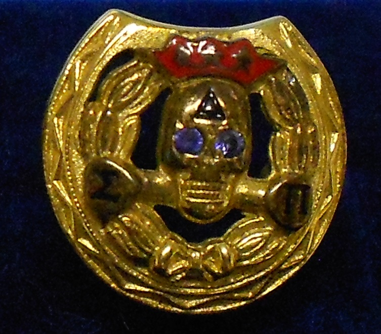 Awarded to those candidates who have successfully completed the pledging process and become full-fledged members of the fraternity. The badge shown is of 1976 vintage.